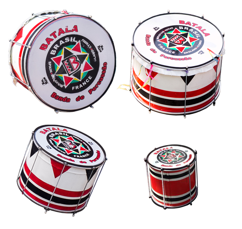 Four of the five drums used by members of Batala Mundo.